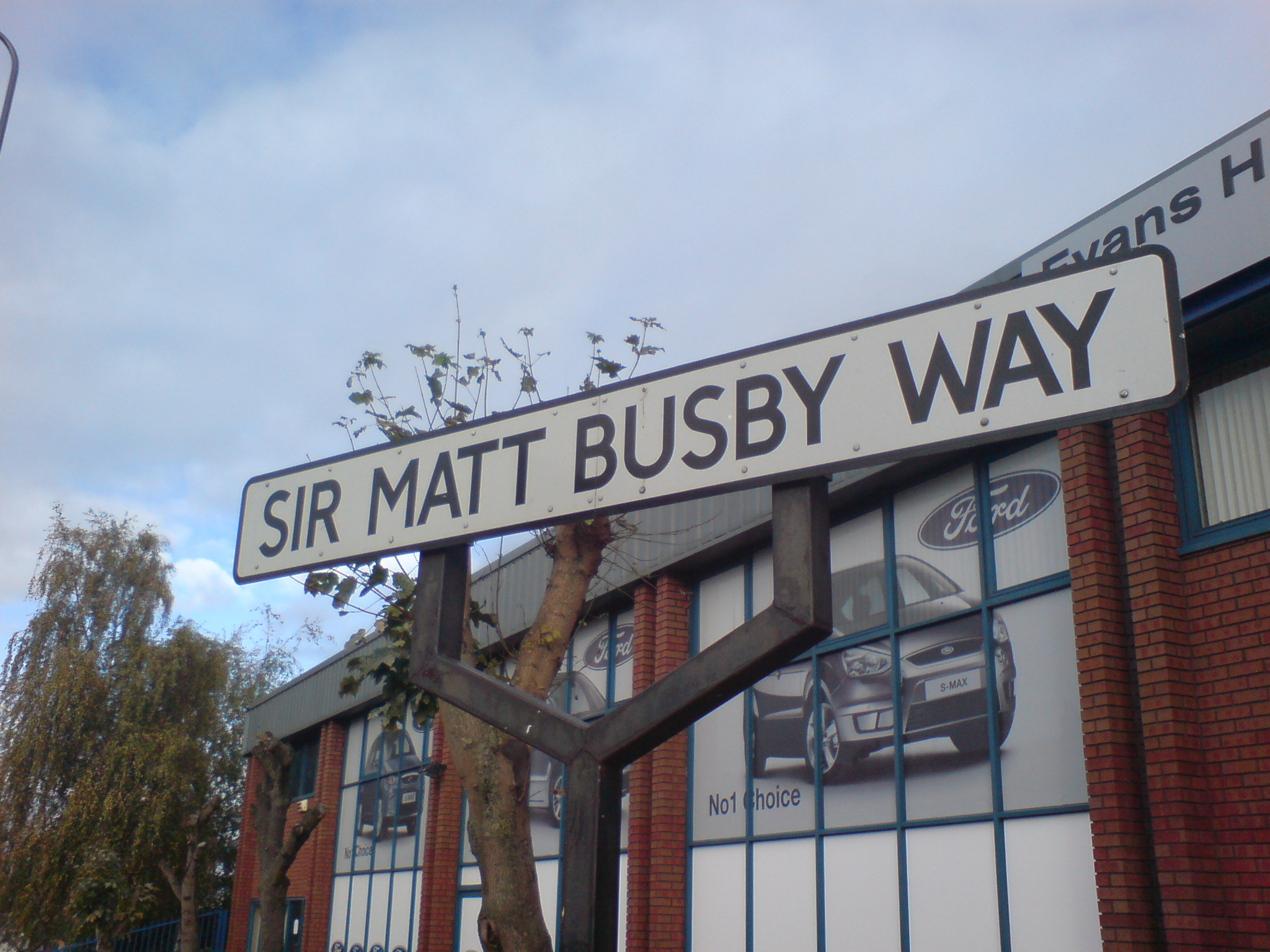 I took this photo myself on en:11 November en:2007 before the match between Manchester United F.C. and Blackburn Rovers F.C. at Old Trafford. Since it is a photo of a road sign, I believe it is free to use.